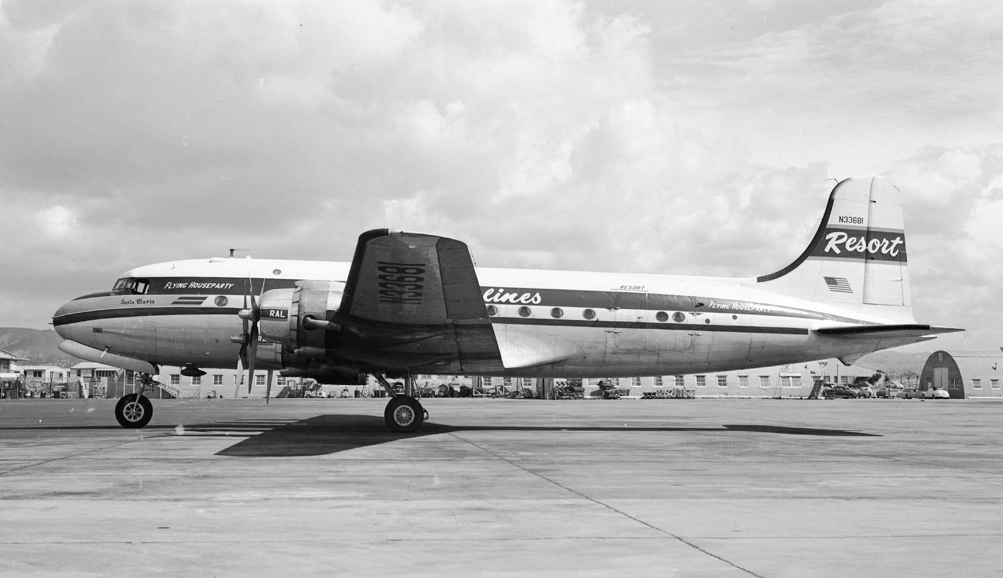 N33682 at Oakland, California, January 1954